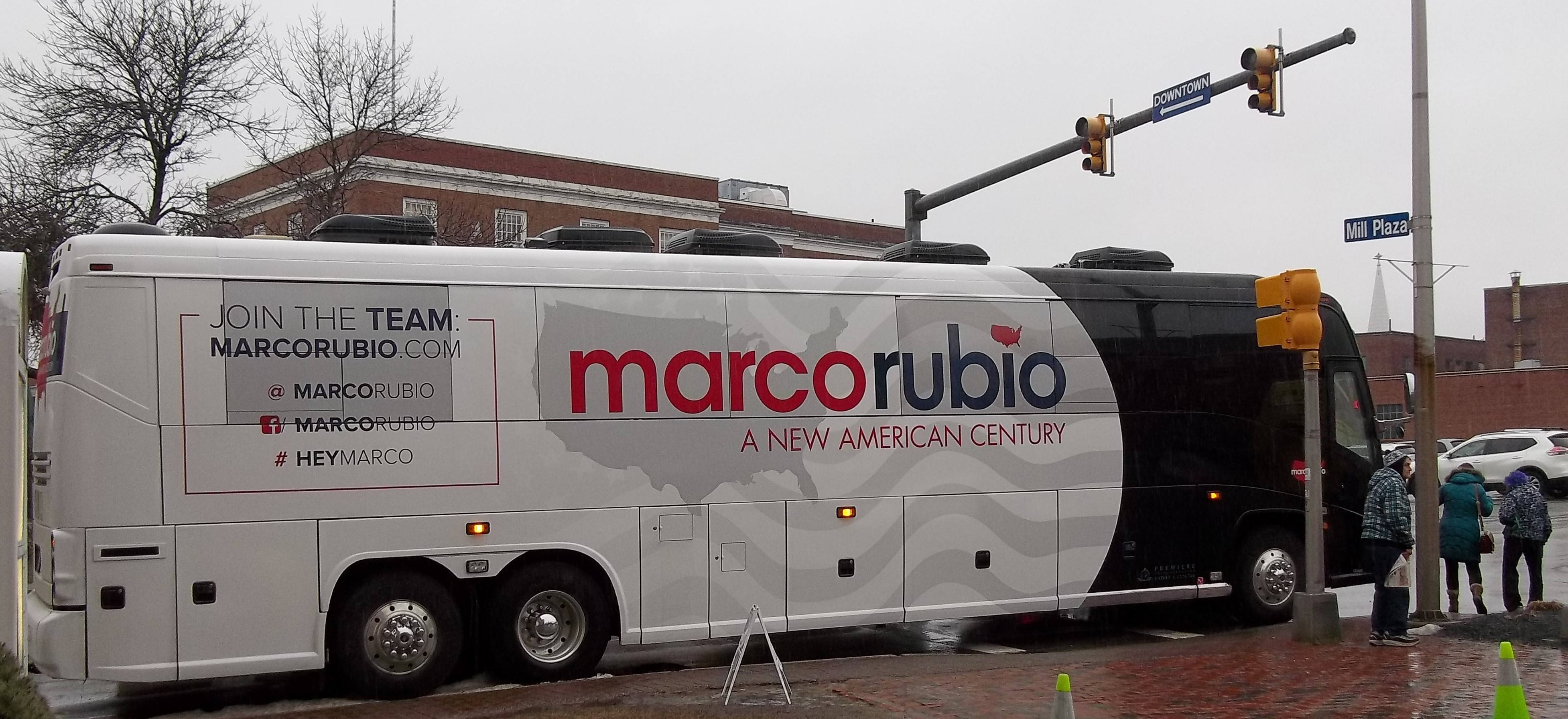 Marco Rubio campaign bus 2016 presidential campaign at Belknap Mill in Laconia, New Hampshire on Wednesday, February 3, 2016.